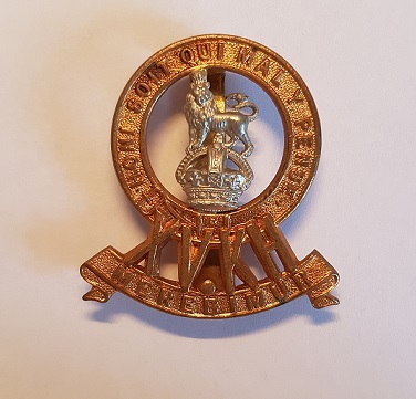 Photo of 15th The King's Hussars Cap Badge from personal collection